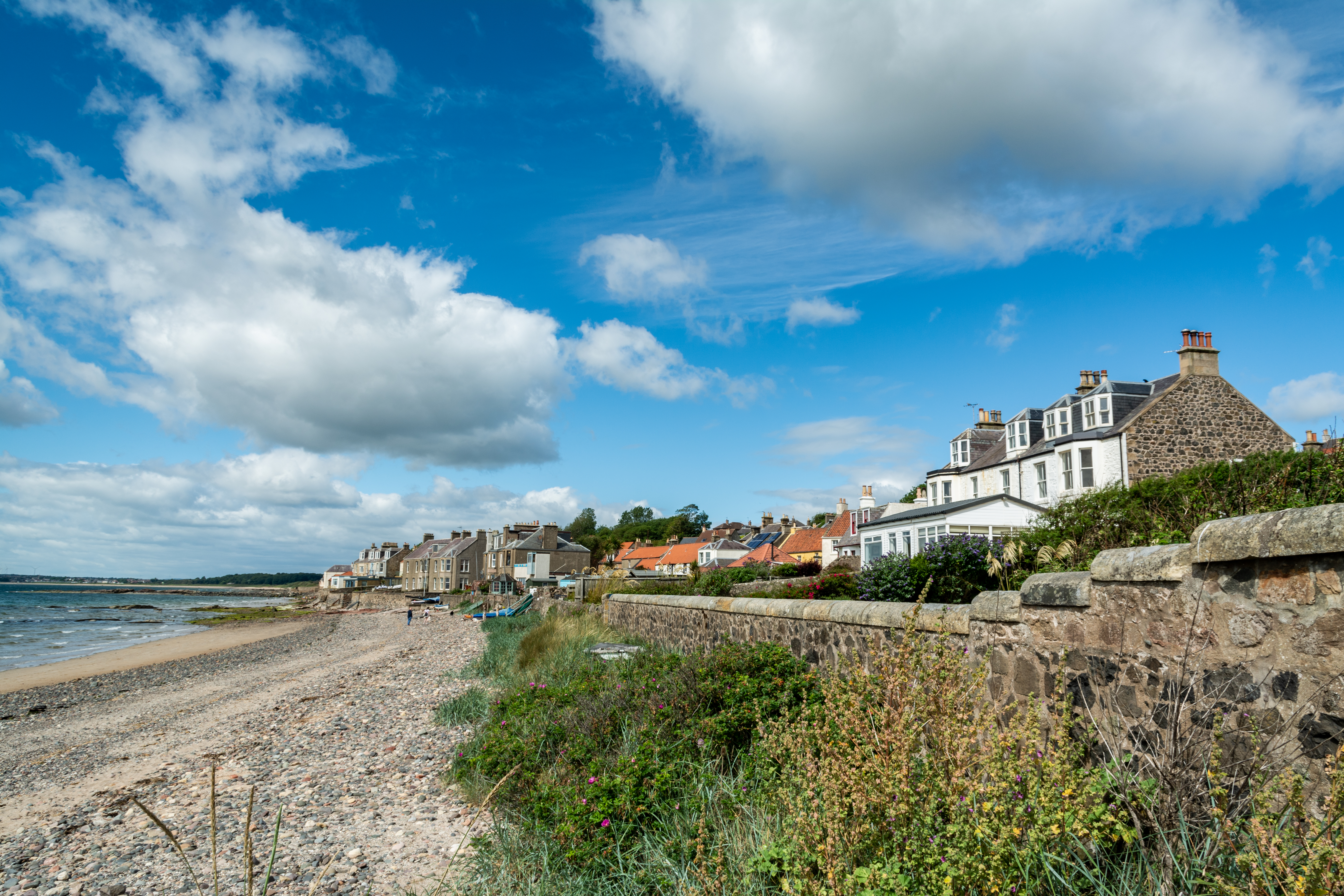 Beach at Lower Largo, Scotland